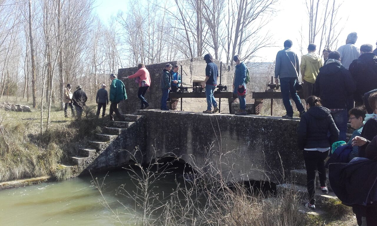 Visit of members of the cooperative to the Valteina hydropower plant in March 2016